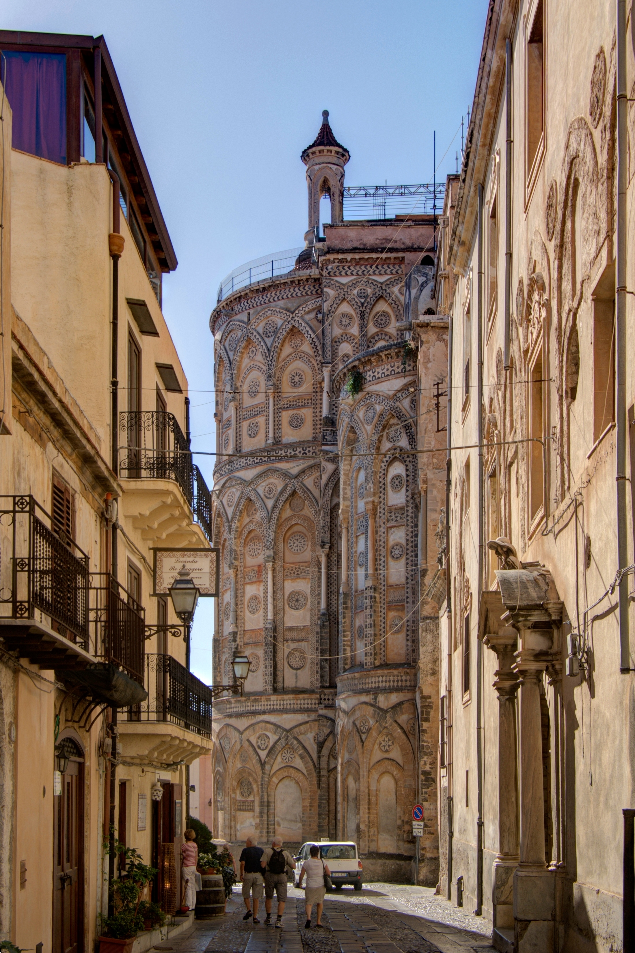 Italy, Sicily, Monreale, Cathedral